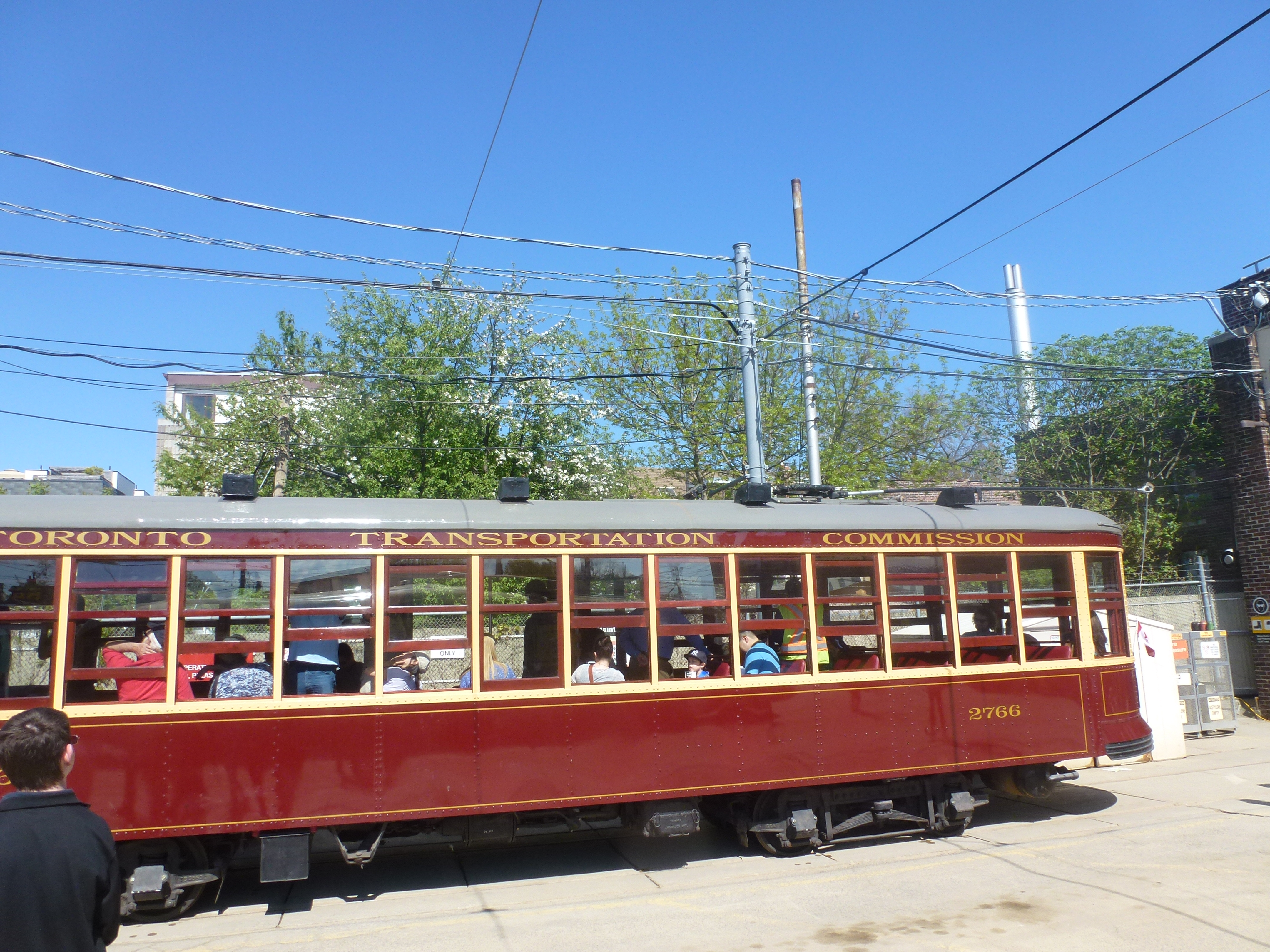 Exteriors of the TTC's legacy streetcars, at the Russell Carhouse, 2014 05 24 (14) I visited the Russell Carhouse during Doors Open Toronto, 2014 and took photos of two legacy streetcars, the TTC's last Peter Witt streetcar and PCC streetcar 4959, and one of the TTC's two prototype Toronto Flexity Outlook streetcars. OTRS ticket 2012092210003274